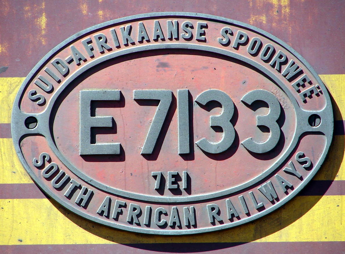 SAR Class 7E1 E7133 number plate Location: Vryheid, Kwa-Zulu Natal